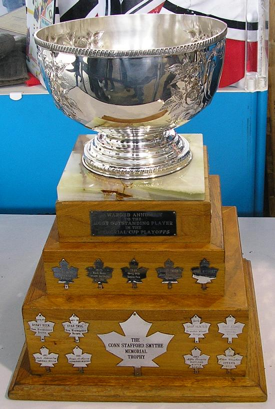 Photo I took of the Stafford Smythe Memorial Trophy at the 2007 Memorial Cup in Vancouver.